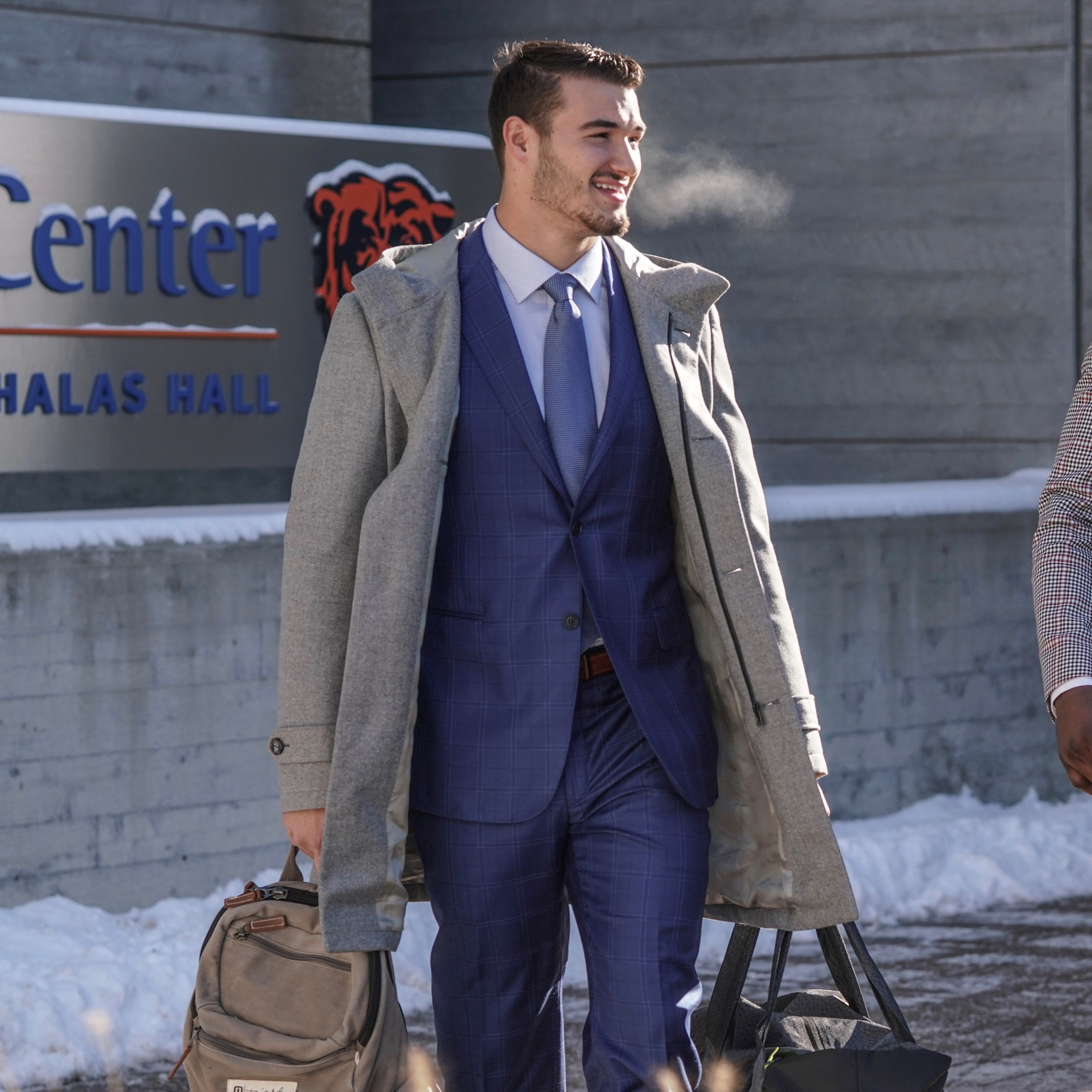 Trubisky at Halas Hall in Lake Forest, Ill. boarding team bus on December 30, 2017.